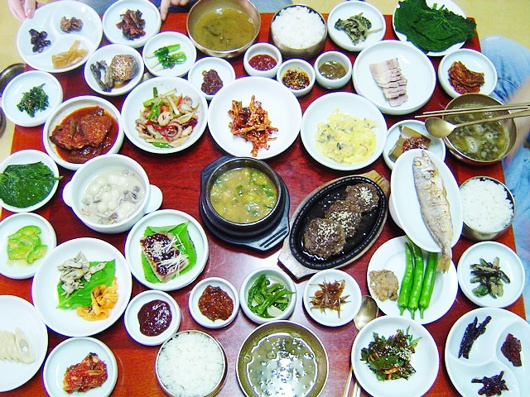 A hanjeongsik table setting with various banchan in Damyang, Jeolla province, Republic of Korea